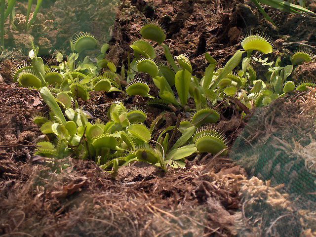 Species Dionaea muscipula Family Droseraceae